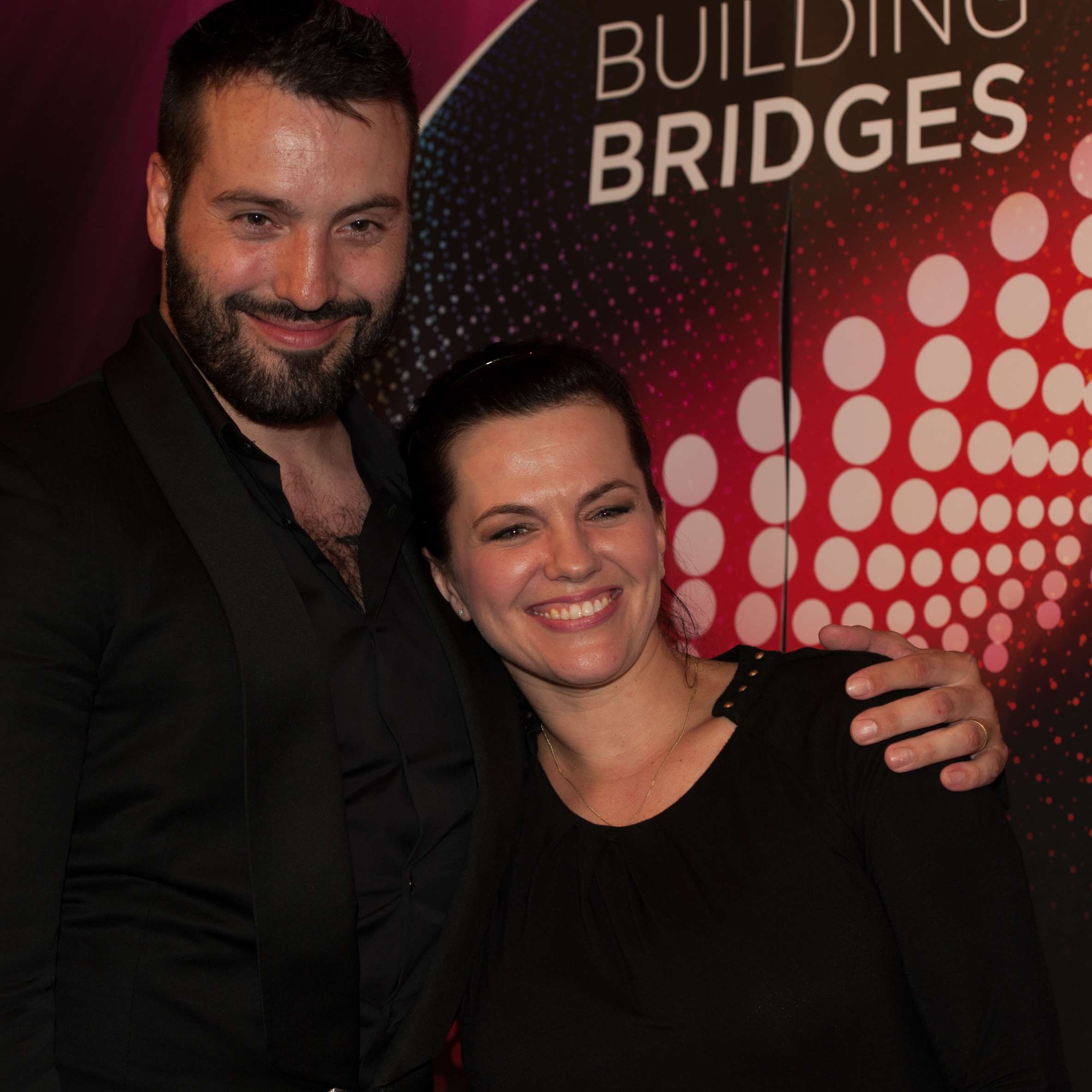 Eurovision Song Contest Vienna 2015: Marta Jandová & Václav Noid Bárta